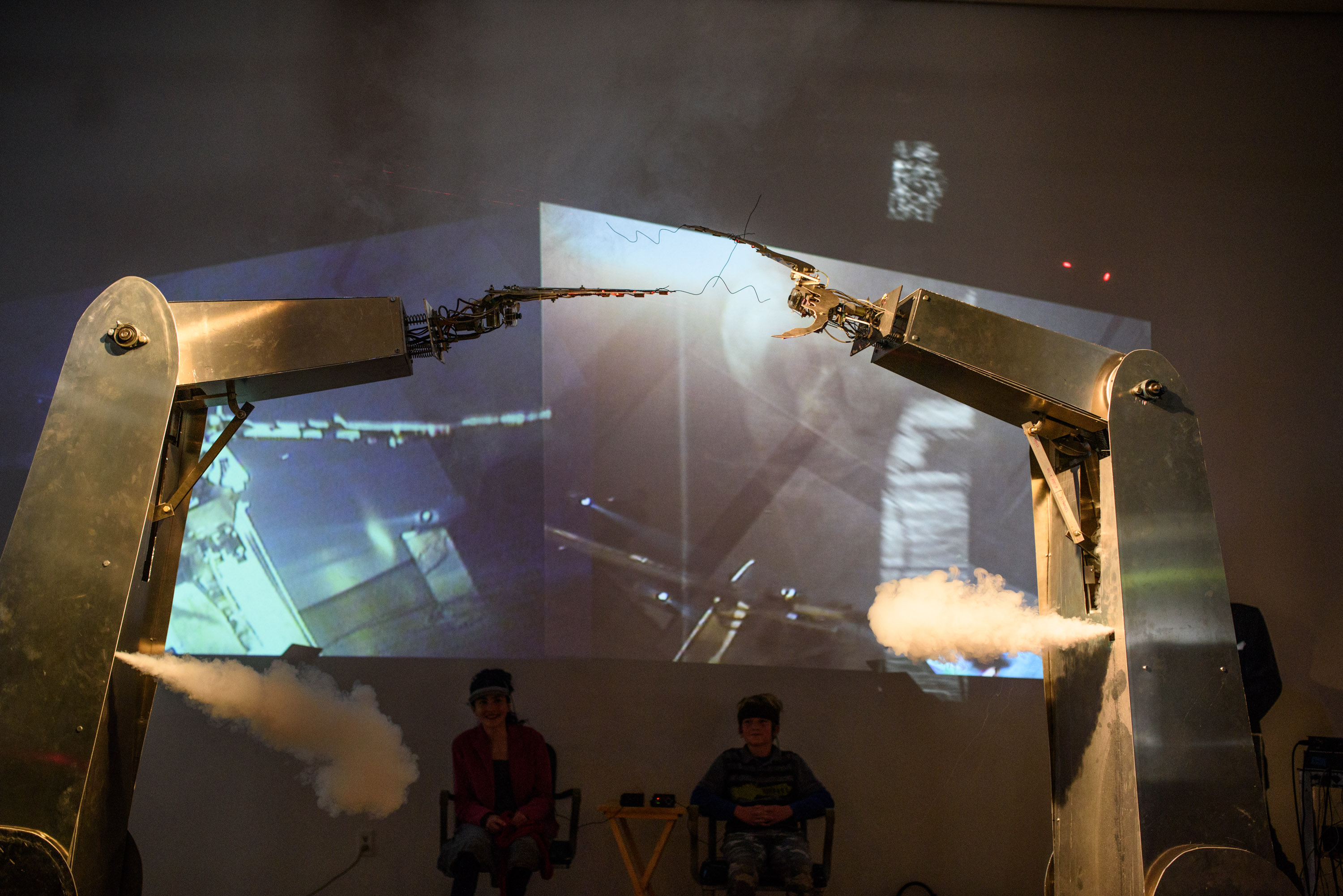 An image from the 2017 installation "Spit Brain Robots" by Kal Spelletich